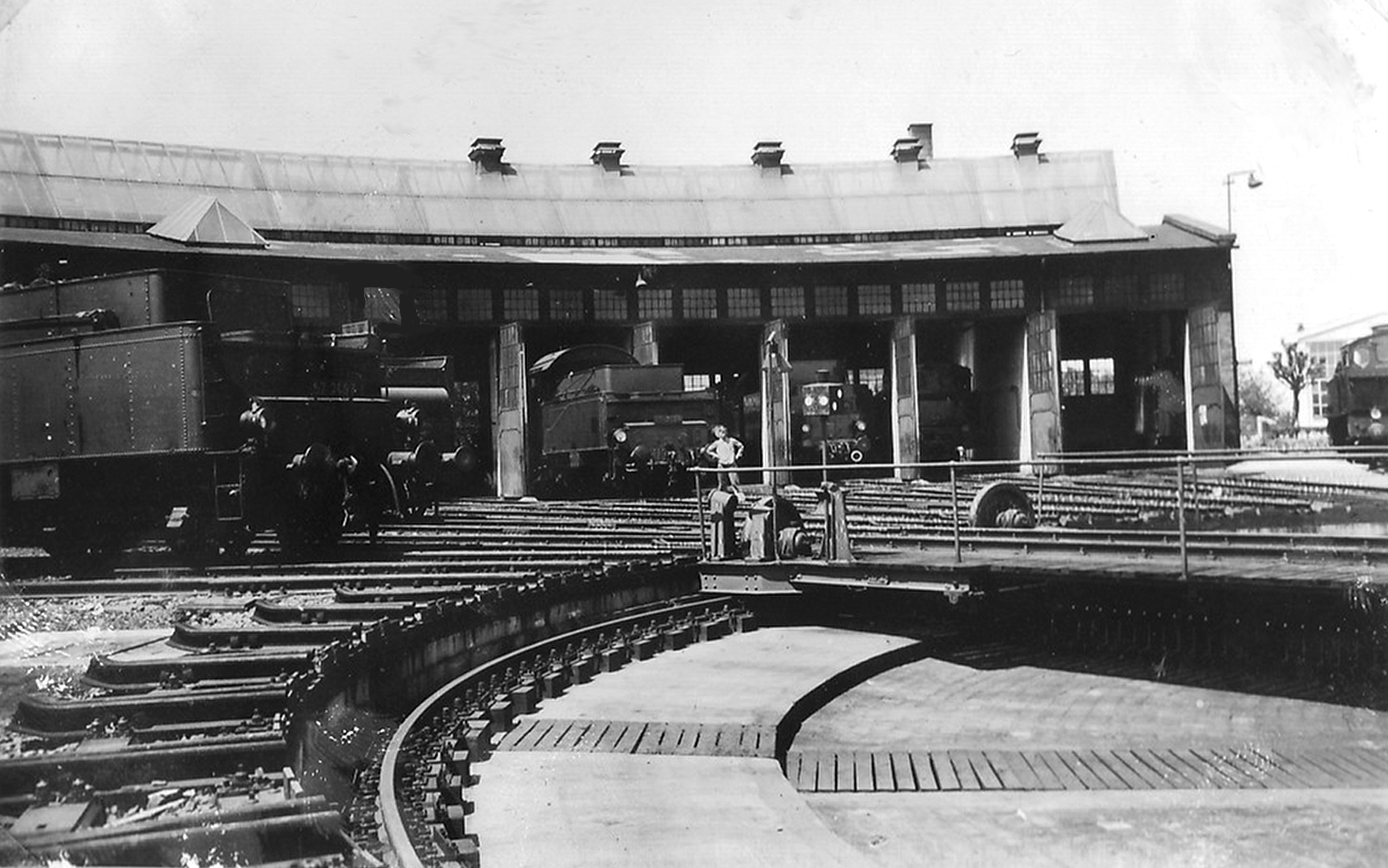 Engine shed at the main railway workshop RAW Frankfurt-Nied.